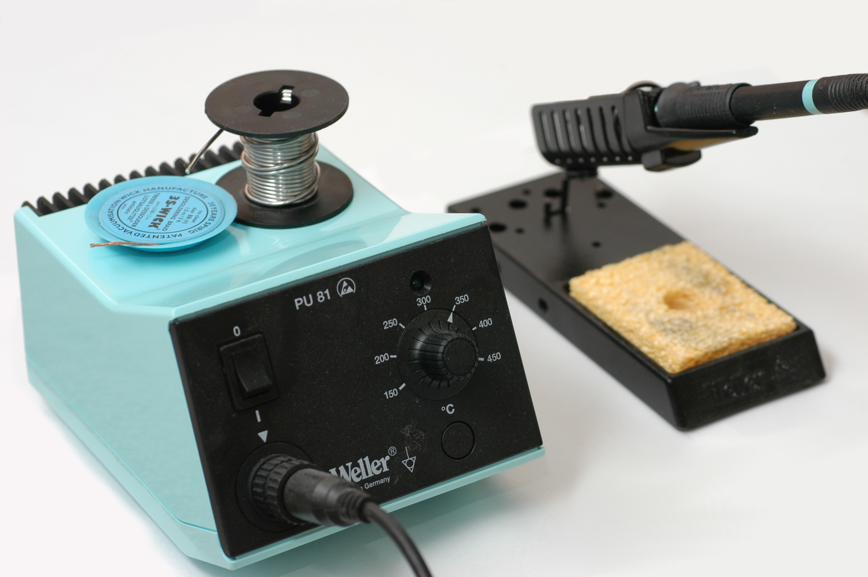 Soldering station